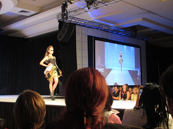 Her Universe Fashion Show at Comic-Con